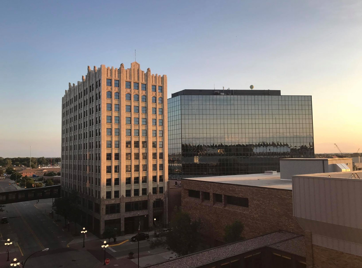 Photo of Sioux City Downtown